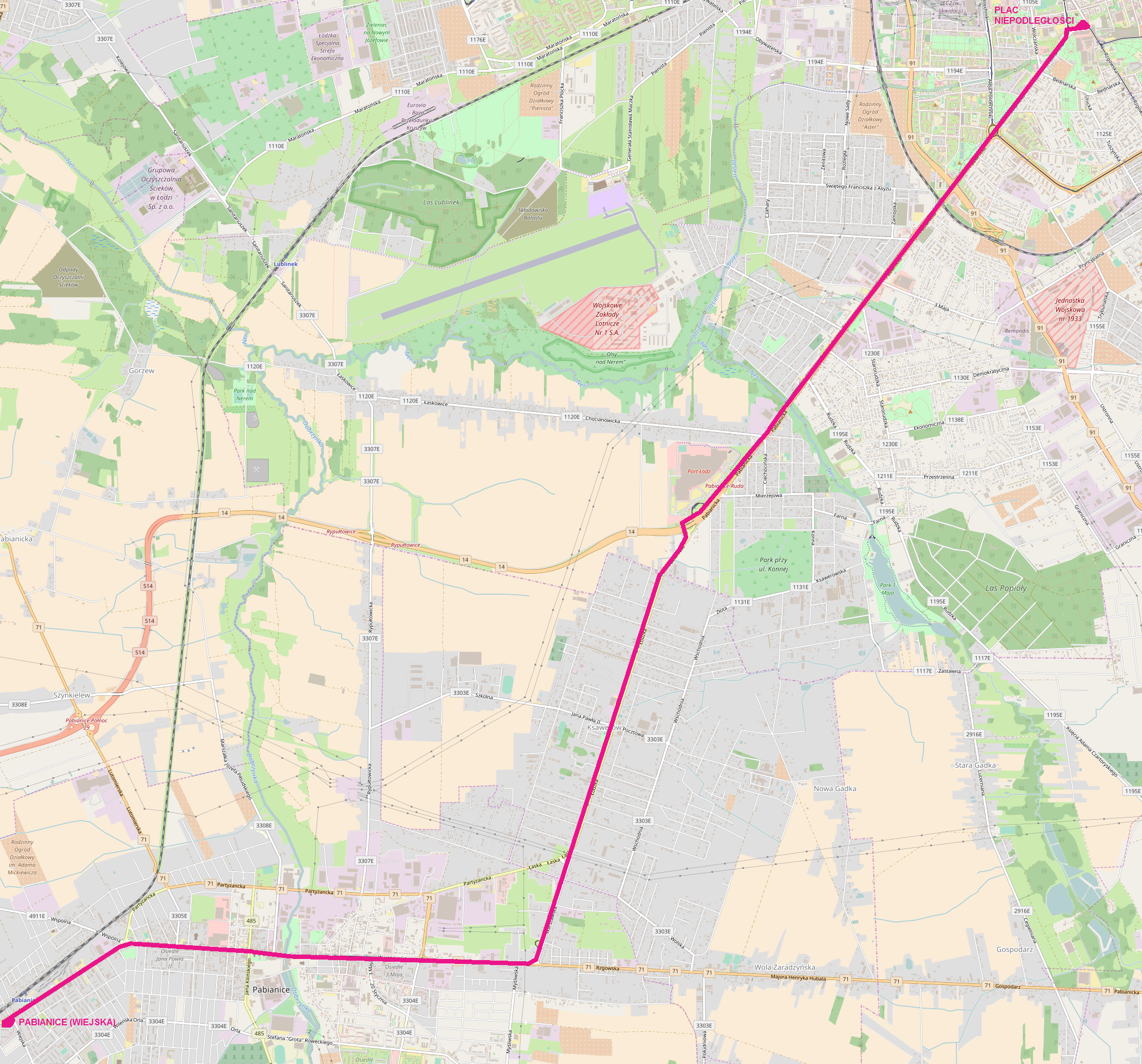 Route of tram line no. 41 in Lodz. Source of map: Source of data